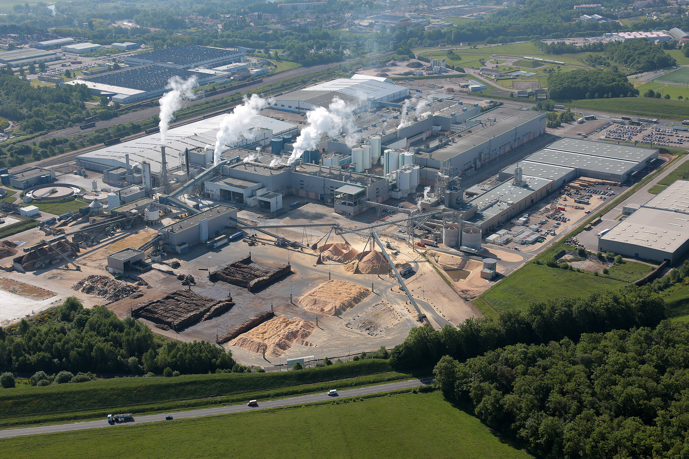 Vue aérienne de l'usine NorskeSkog de Golbey